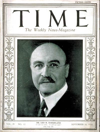 TIME Magazine Cover Featuring Leo H. Baekeland (22 Sep 1924)